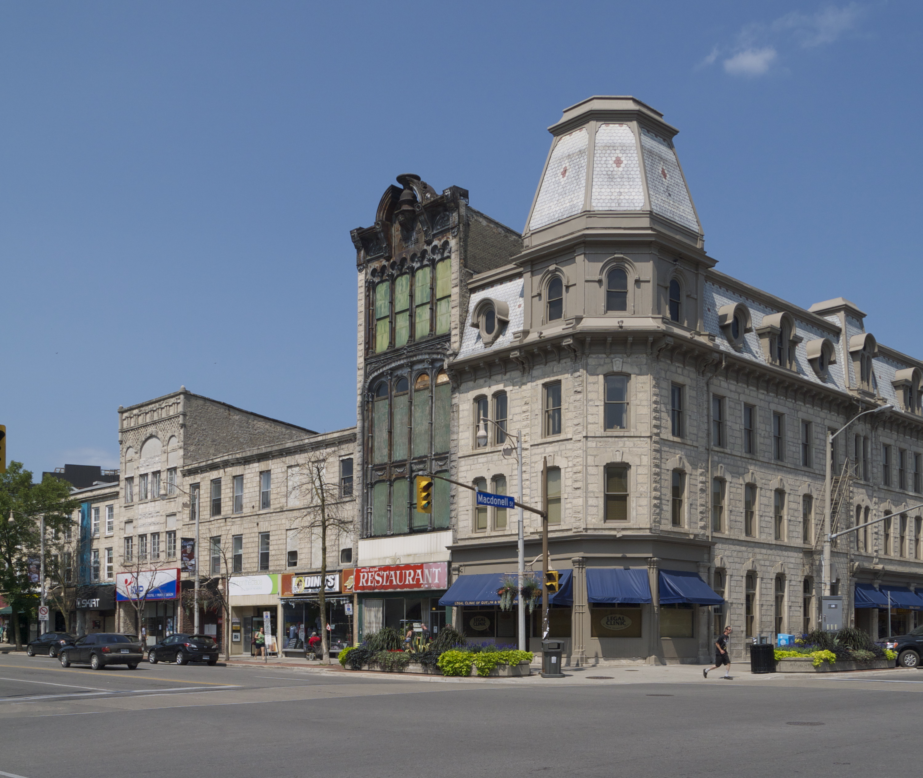 Corner of Wyndham and Macdonell streets in downtown Guelph.